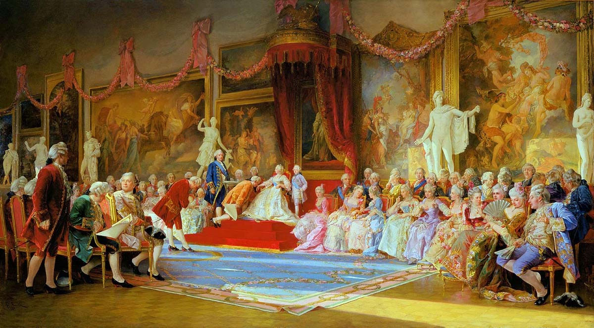 Inaguaration of the Academy of Art